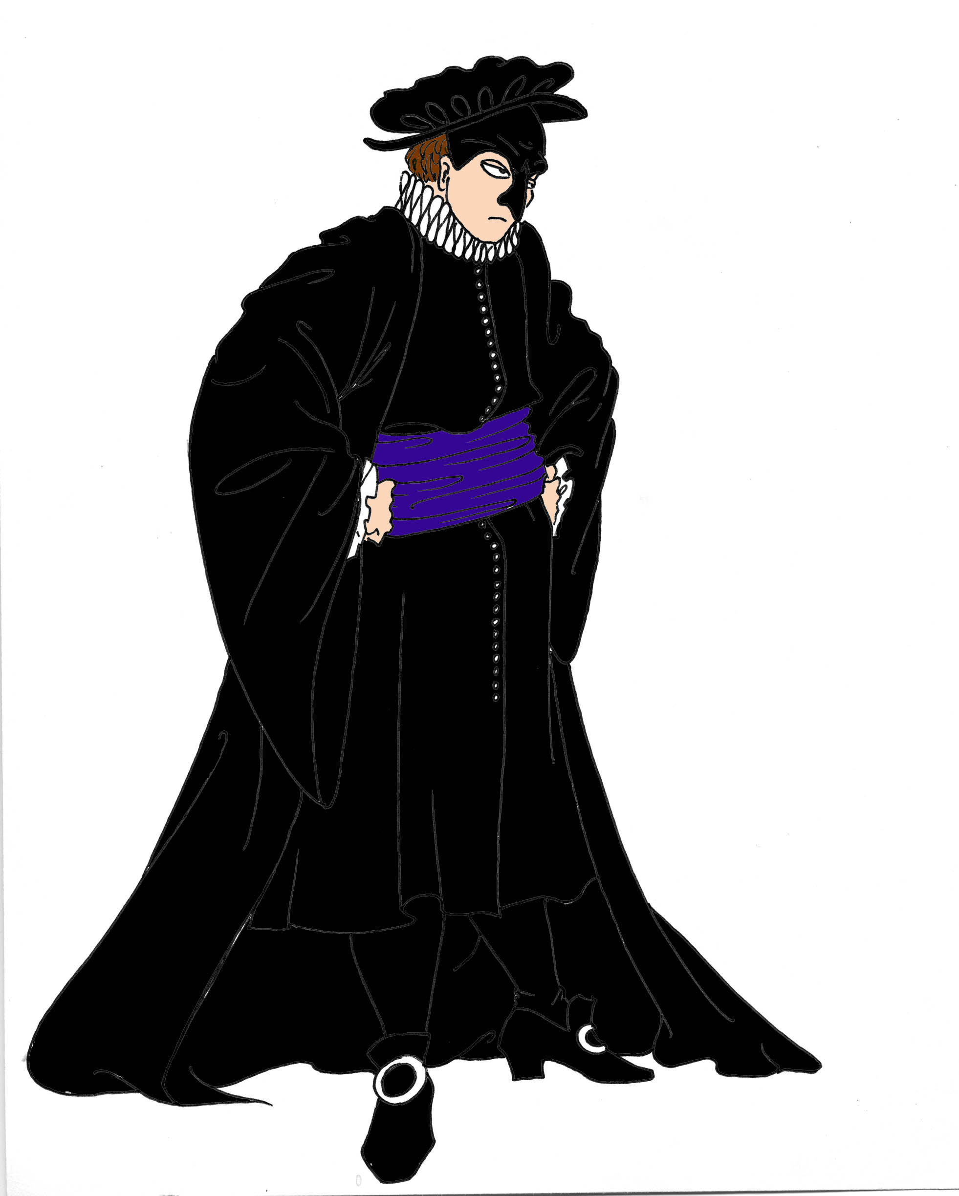 Costume design for The Doctor by Talia Felix for the play "Chile Confront" in 2004.